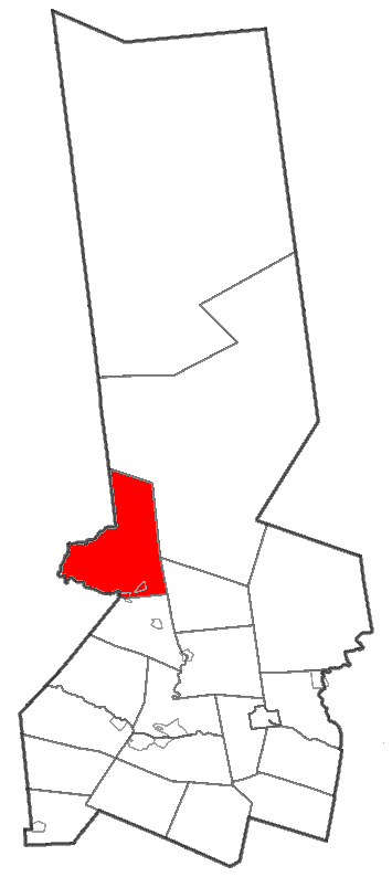 Map of Herkimer County highlighting Russia